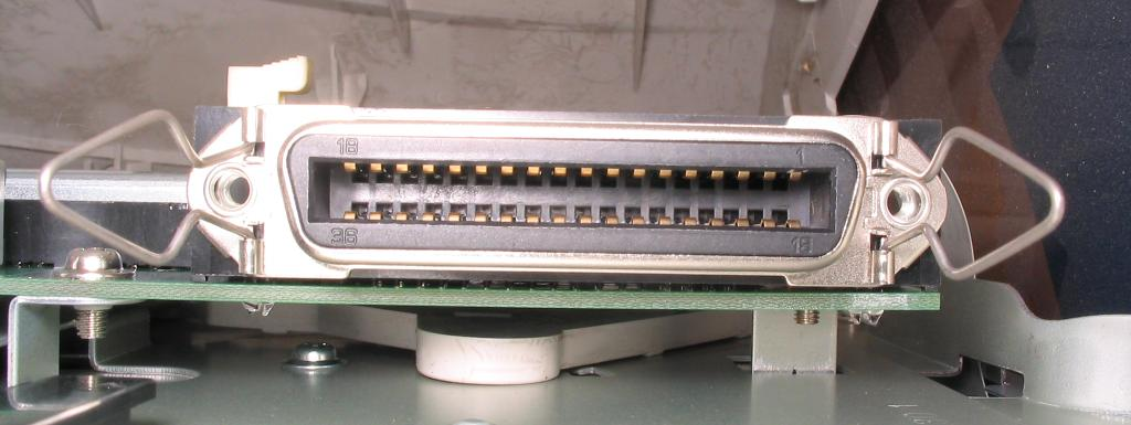 Description: Micro ribbon connector Centronics 36pin female, on a circuitboard Author, date of creation: selfmade by Shaddack, 17 October 2005 Source: self-made Copyright: Public Domain (PD) Comments: b/w PNG; ChemWindow